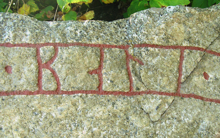 runic stone Upplands runinskrifter 873 signature of Balle